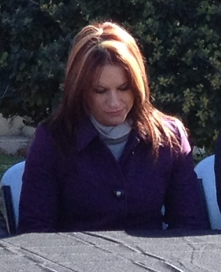 Team president Tommy Benizio, general manager Tim Brown, and head coach Chris Williams welcome new running back Jen Welter, the first woman to play pro football at any level other than as a kicker, to the Texas Revolution of the Indoor Football League.